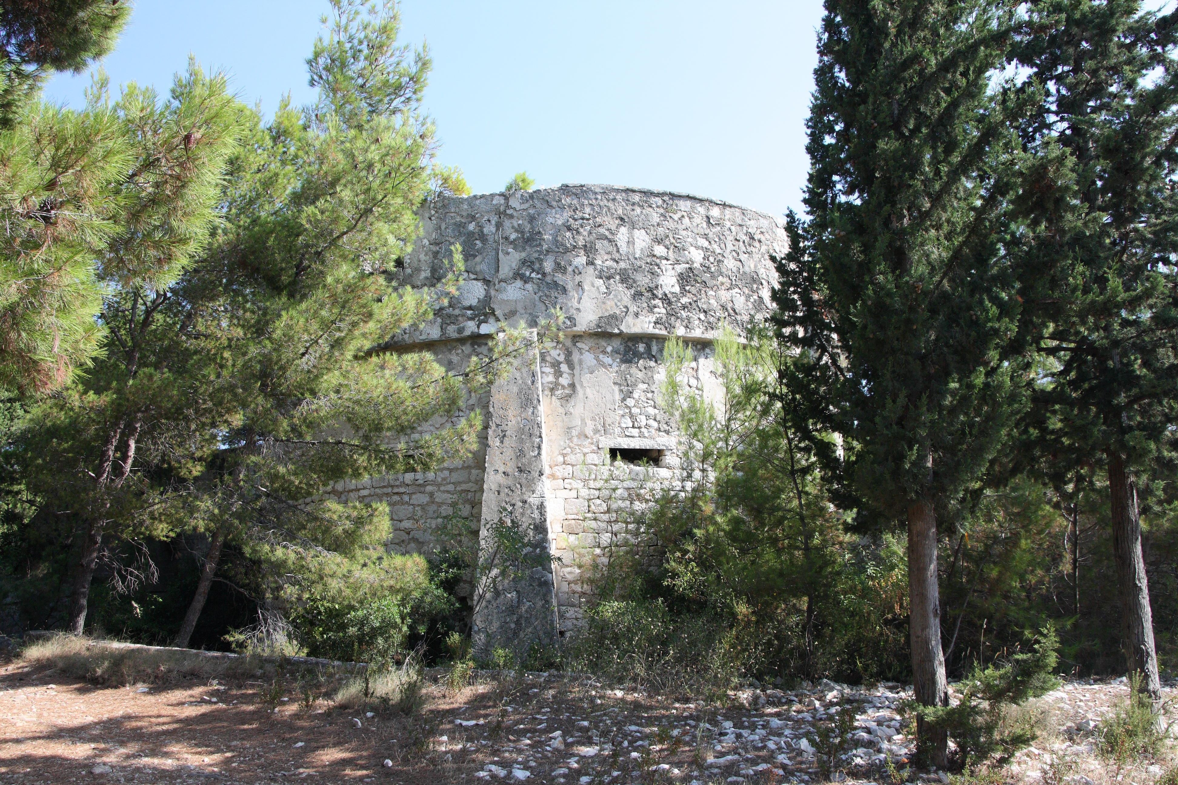 Fortress Baterija Andreas Hofer at Hvar